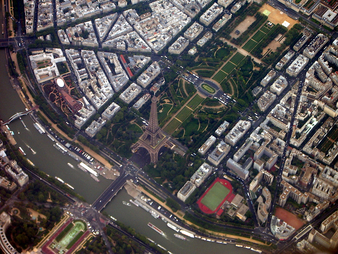 Flight AF 2332, from CDG to ATH, A320 F-GJVW